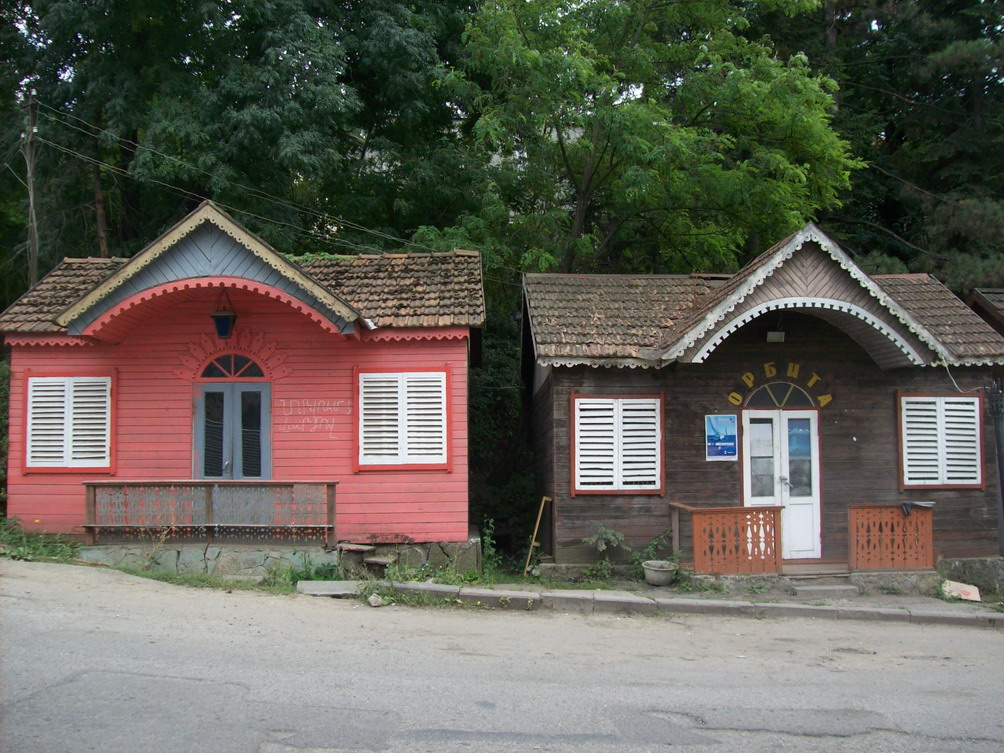 Dilijan houses